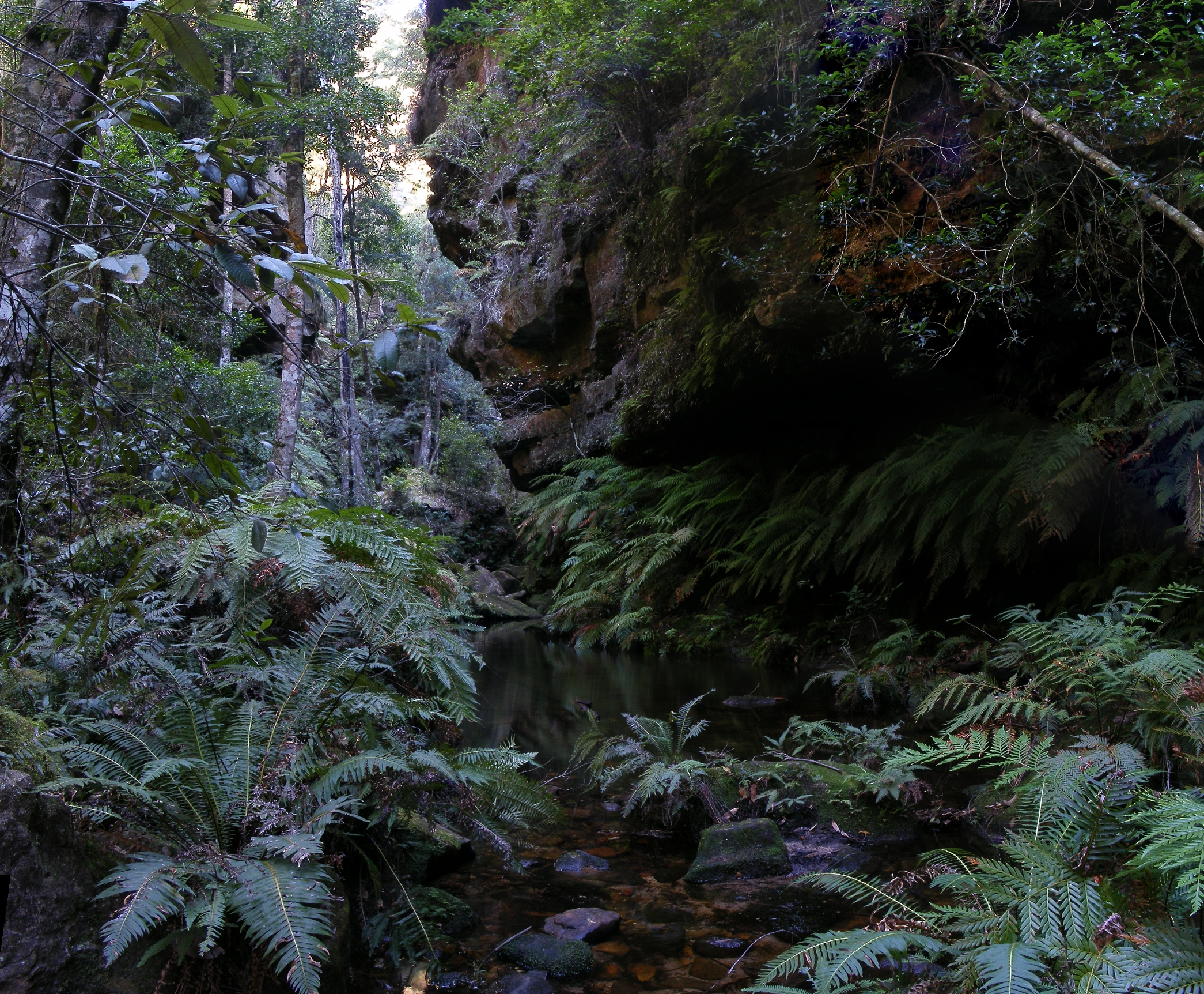 This was taken along the grand canyon walk in the blue mountains commencing at the evans looks. Cheers brothers